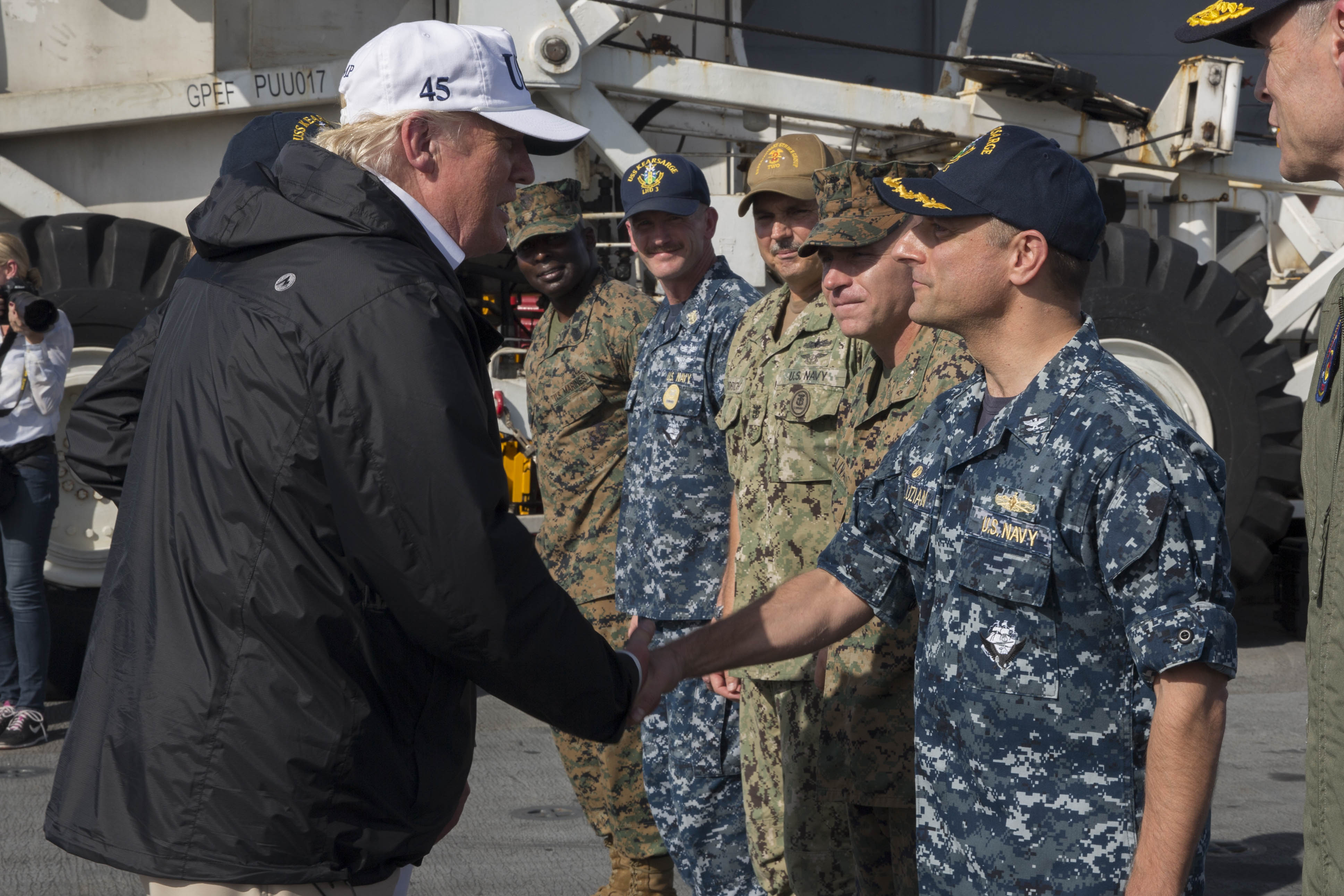 CARIBBEAN SEA (Oct. 3, 2017) President Donald Trump shakes hands with Capt. David Guluzian, commanding officer of the amphibious assault ship USS Kearsarge (LHD 3) during a visit to the ship to discuss ongoing operations in Puerto Rico and the U.S. Virgin Islands. Kearsarge is assisting with relief efforts in the aftermath of Hurricane Maria. The Department of Defense is supporting the Federal Emergency Management Agency, the lead federal agency in helping those affected by Hurricane Maria to minimize suffering and is one component of the overall whole-of-government response effort. (U.S. Navy photo by Mass Communication Specialist 3rd Class Dana D. Legg/Released)171003-N-MC499-265 Join the conversation: navylive.dodlive.mil